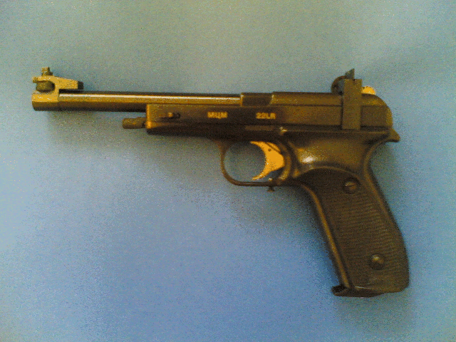 Baikal MCM .22 LR pistol primarily used for competitive target shooting in 25m Standard Pistol class